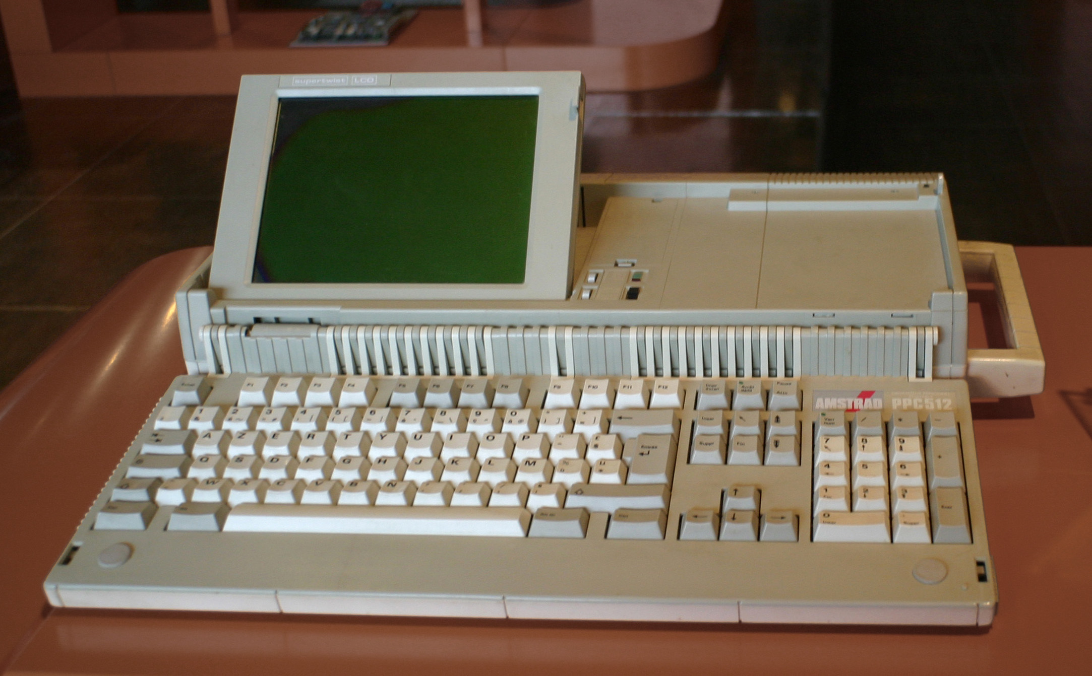 Amstrad PPC512 in Paris, 2008.